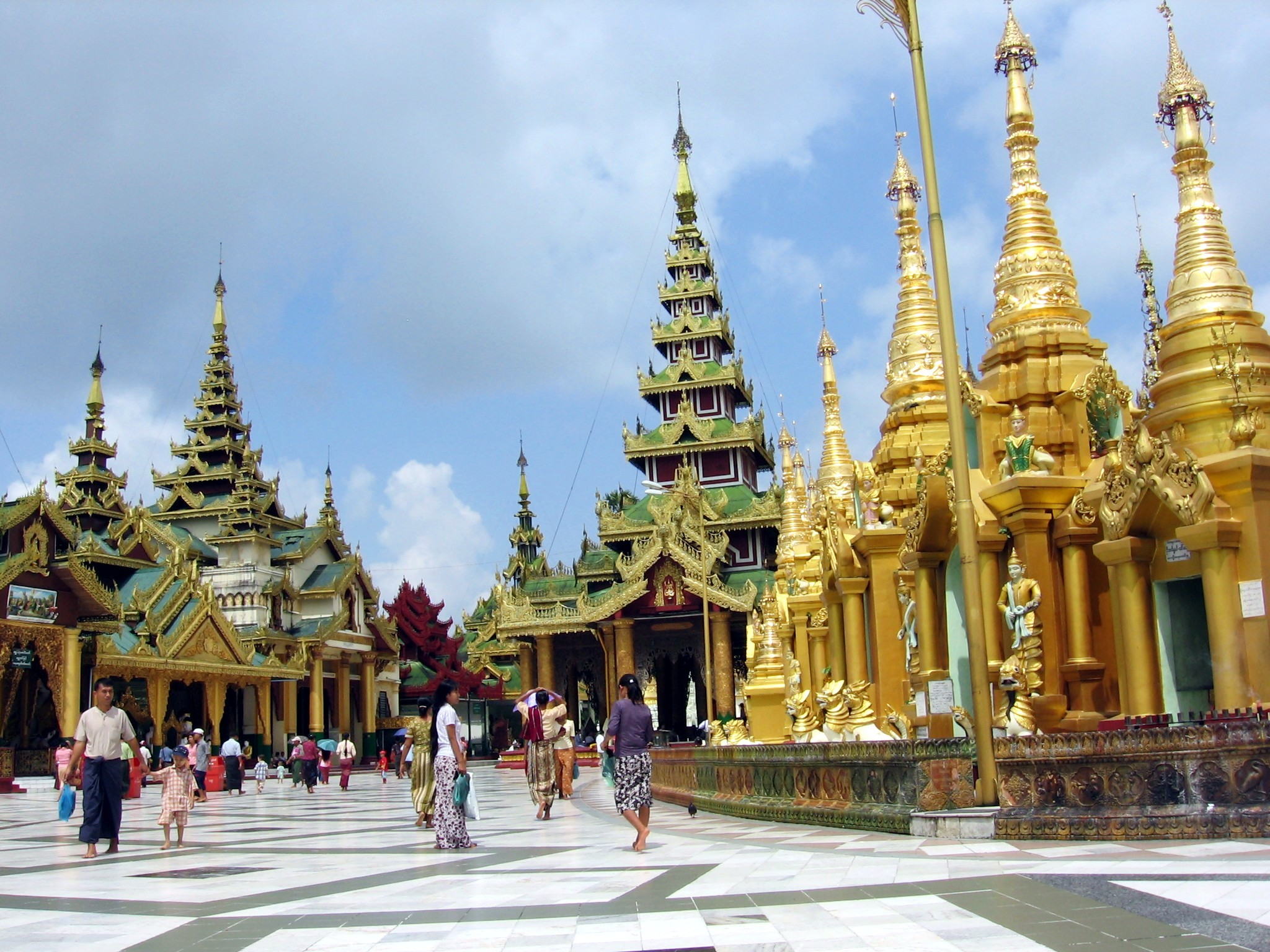 The Shwedagon Pagoda (officially titled Shwedagon Zedi Daw) is a 98-metre gilded stupa located in Yangon, Myanmar.